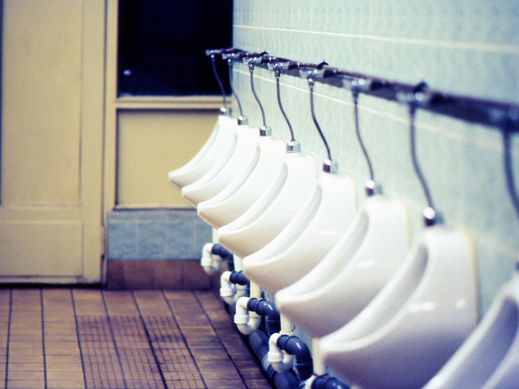 urinal of the main railway station Leipzig in the early 1990s